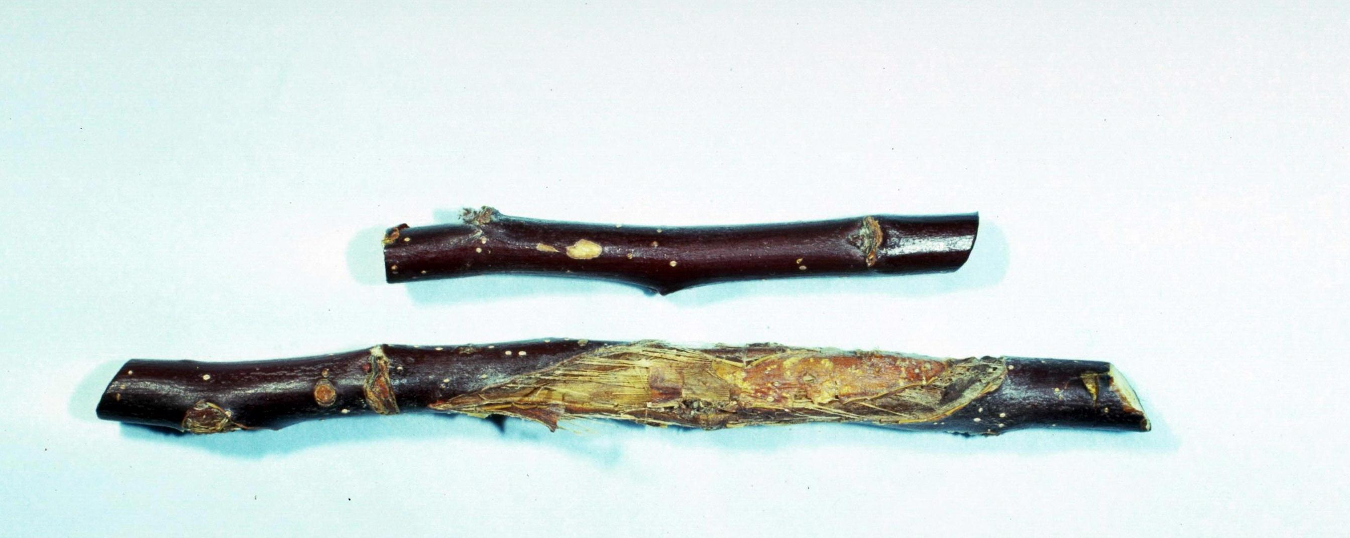 Apple twigs with symptoms of bull's-eye rot infection caused by Neofabraea malicorticis. This disease is also sometimes referred to as the northwestern anthracnose canker. Image citation: H.J. Larsen